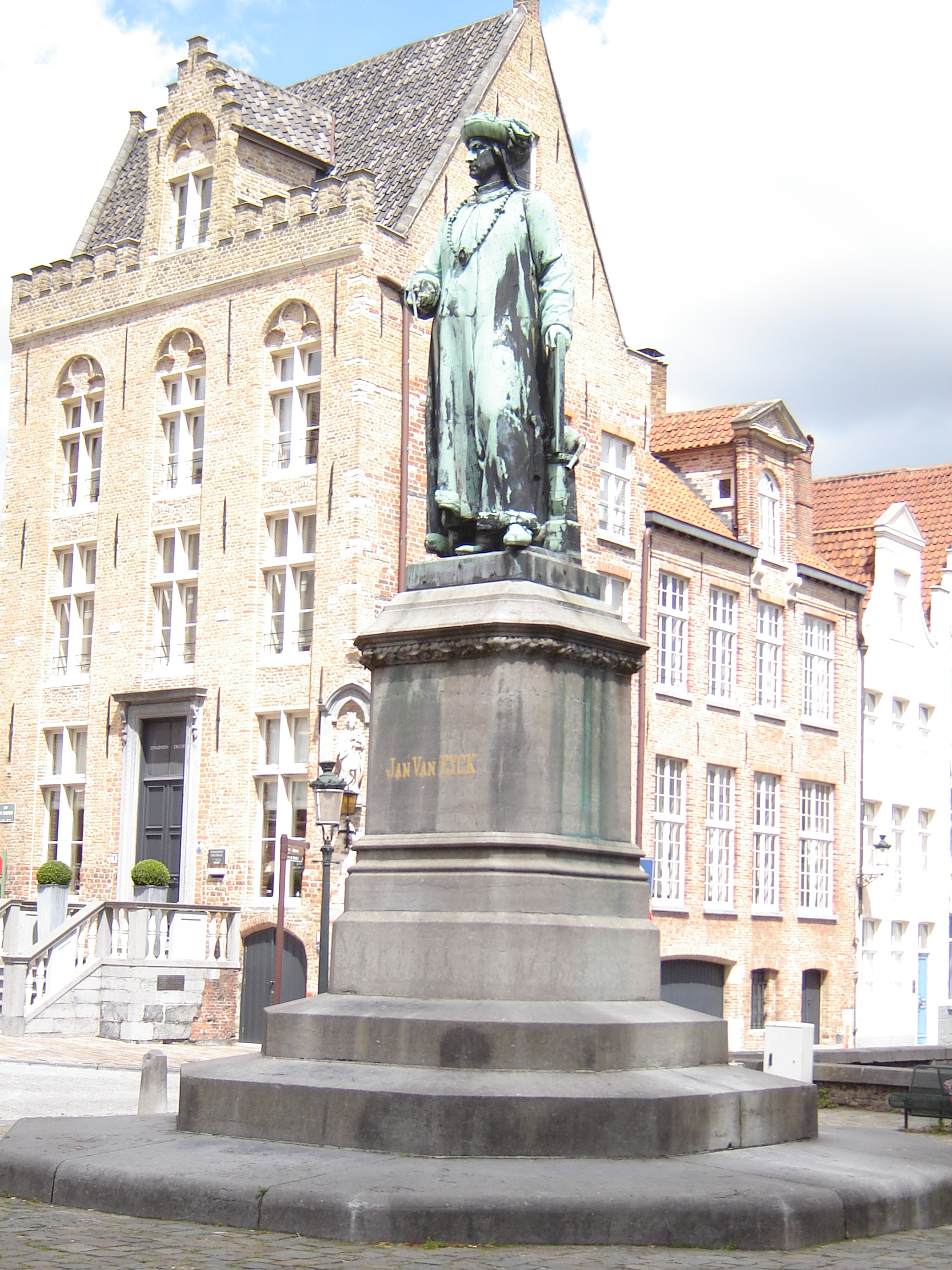 Statue of Jan Van Eyck in Brugge. Brugge, West-Flanders, Belgium.